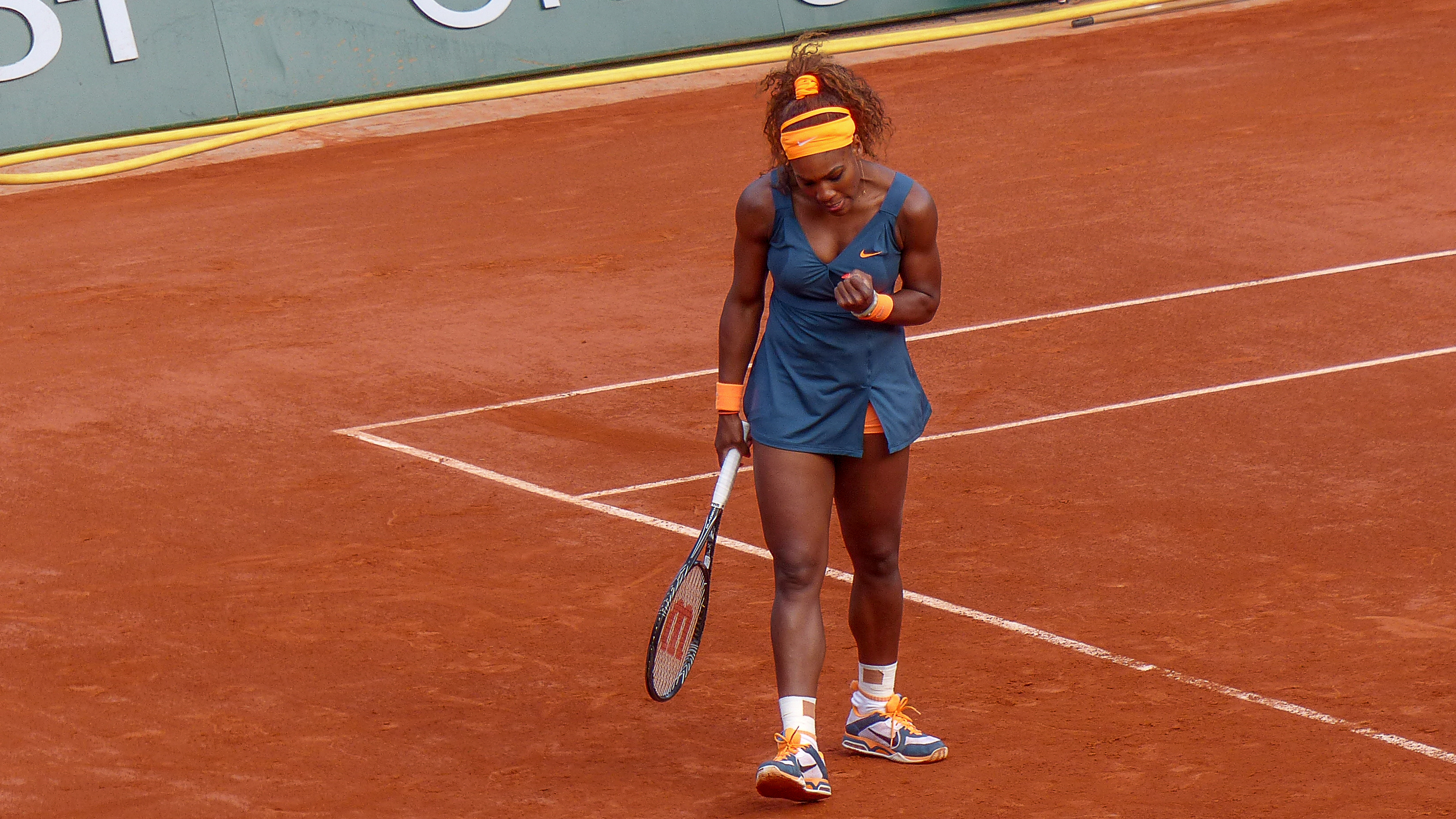 2ème tour Roland Garros 2013 : Serena Williams (USA) def. Caroline Garcia (FRA)